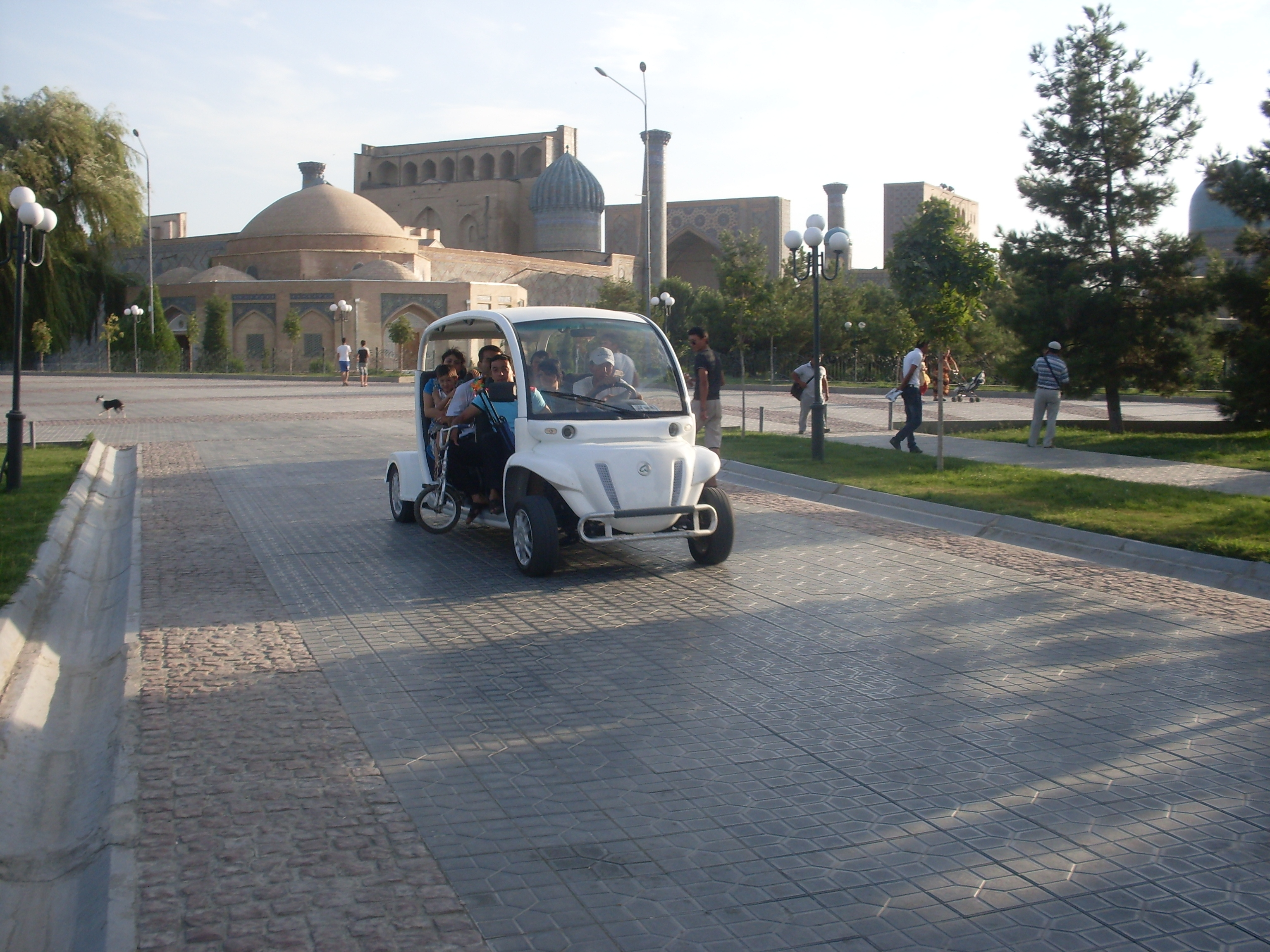 Street Tashkent Ancient trading dome Chorsu